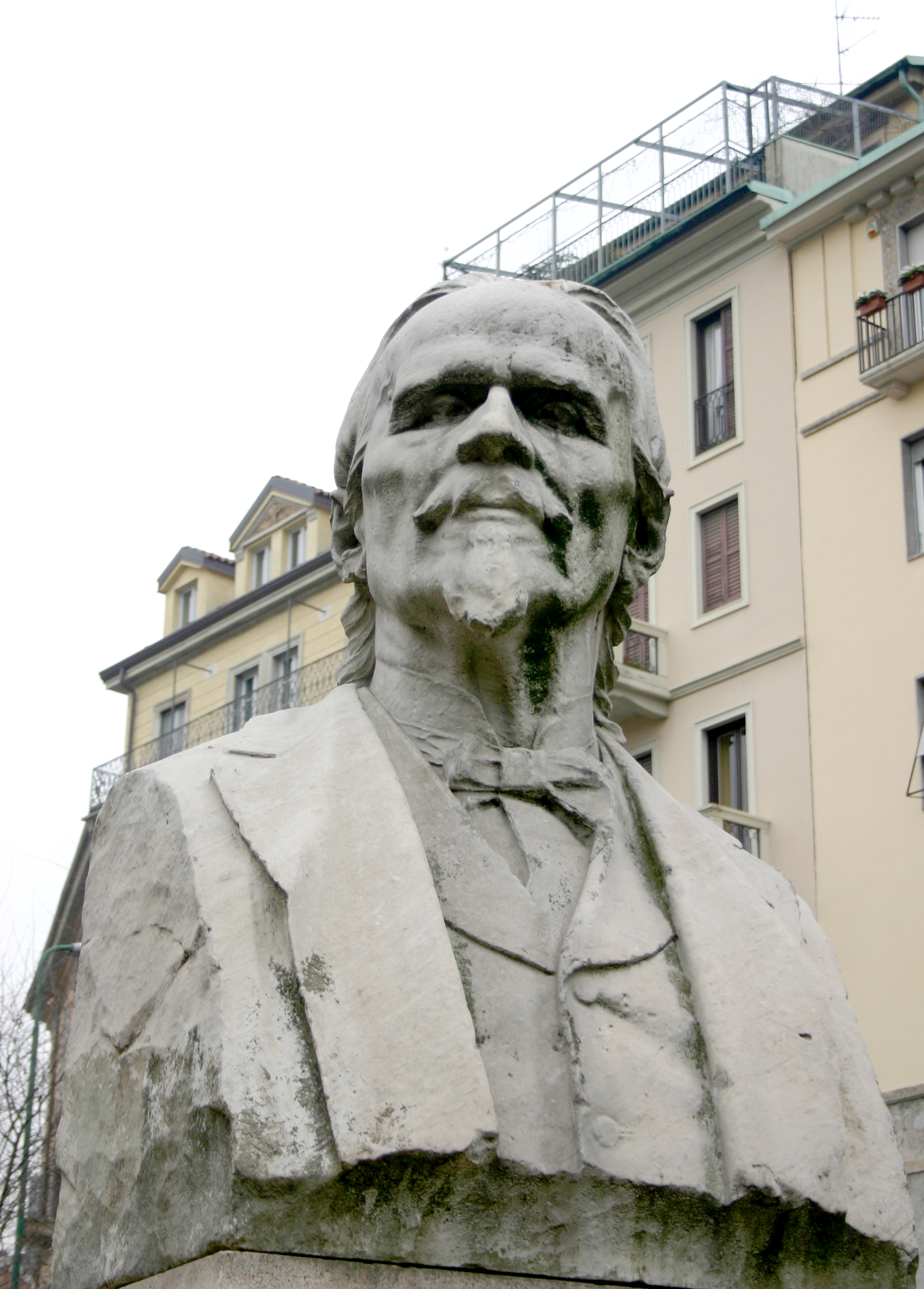 Milan. Monument, in "Camilla Cederna" park, to Andrea Verga (1811-1895), an Italian anatomist, psychiatrist and member of the Senate of the Kingdom of Italy. Picture by Giovanni Dall'Orto, February 21 2007.